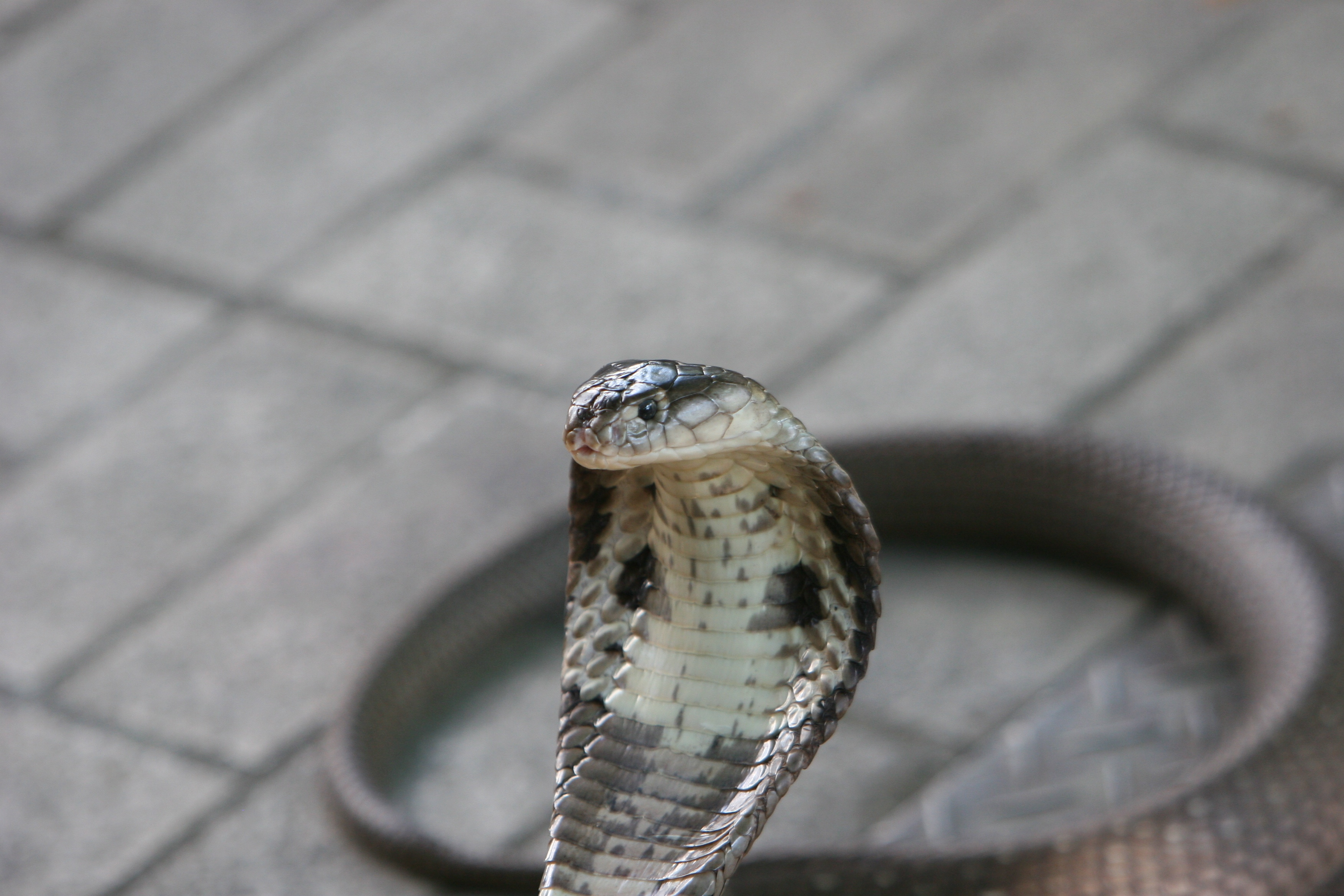 A Monocled cobra (Naja kaouthia).